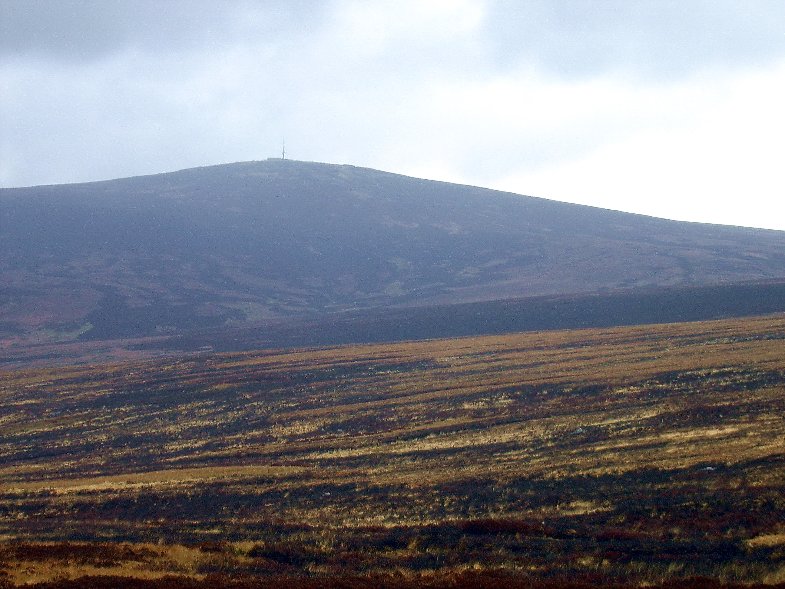 Kippure viewed from the south, near the Sally Gap.